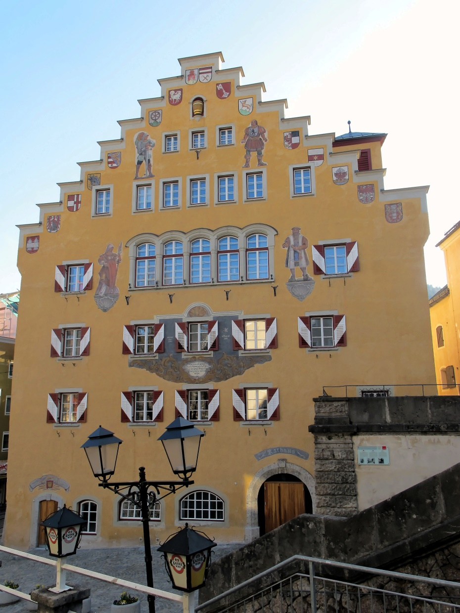 City Kufstein, City Hall